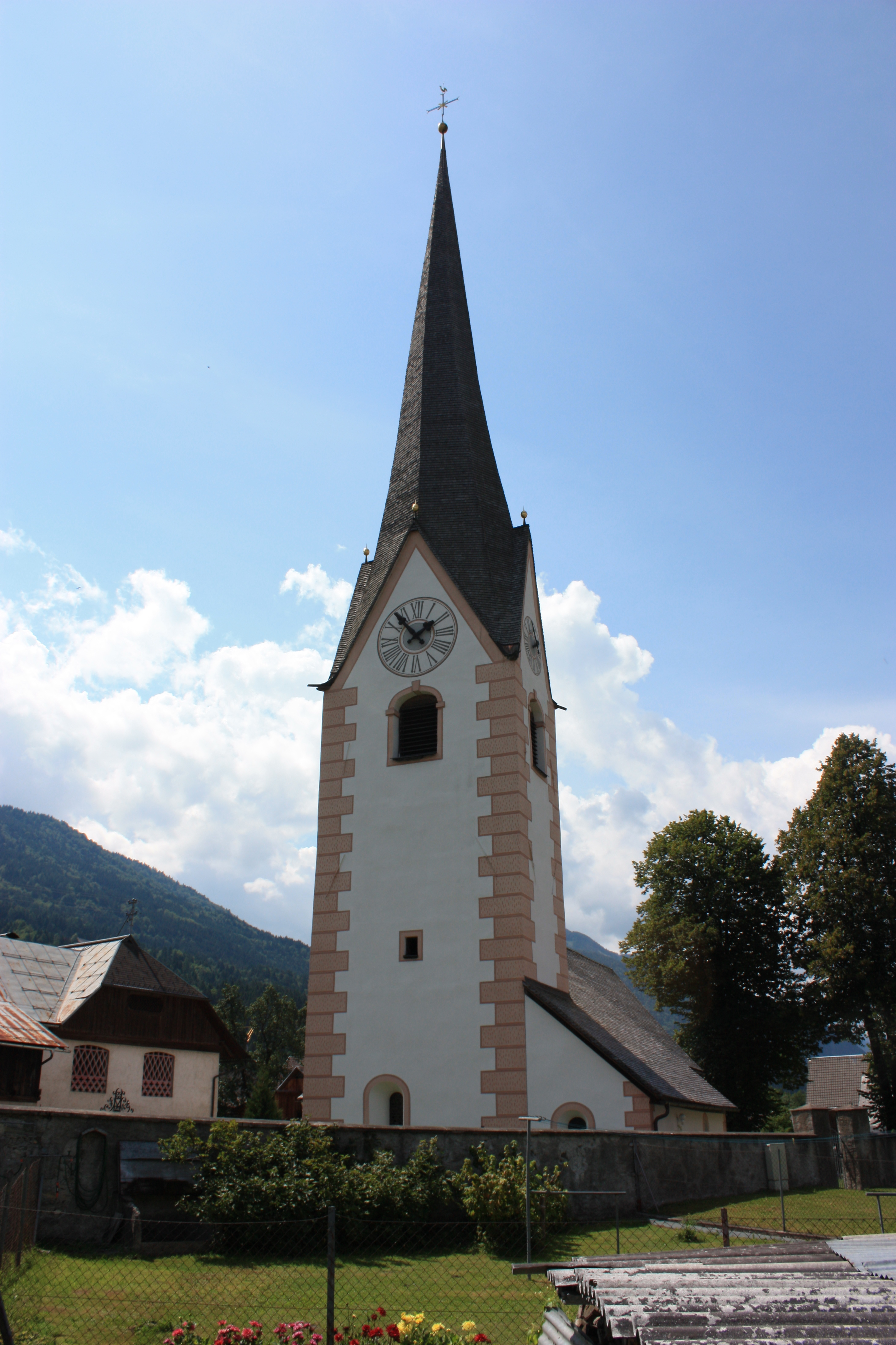 Parish church Saint George Locality: Tröpolach Community:Hermagor